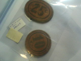 Castellar del Vallès' coins, manufactured during Spanish Civil War